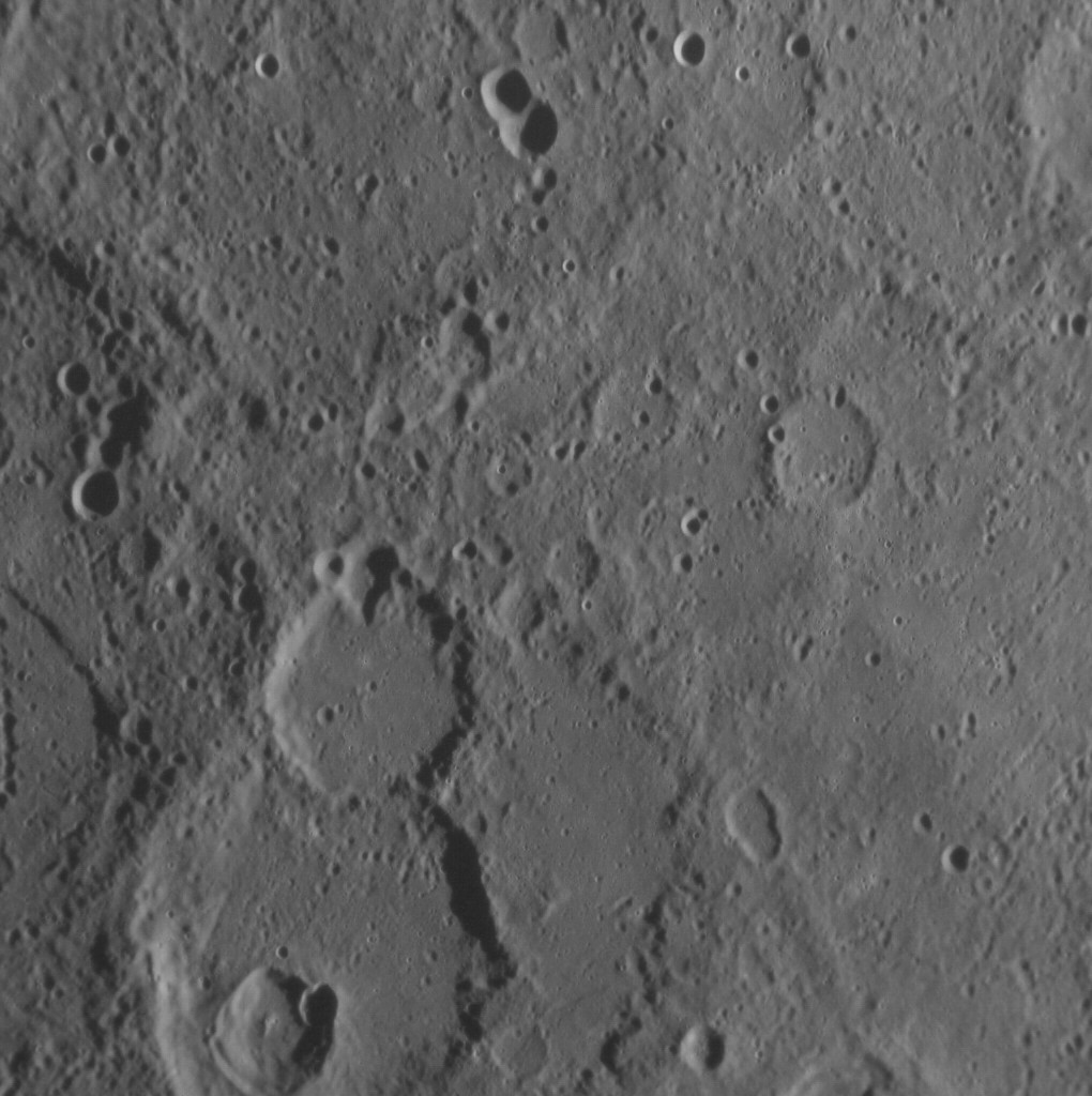 Sarmiento crater (lower left) on Mercury. MESSENGER Narrow Angle Camera image. Approximate north is up. Width is approximately 250 km. Emission Angle: 24.5 Incidence Angle: 76.9 Latitude: -26.9 Longitude: 171.7 Phase Angle: 105.4